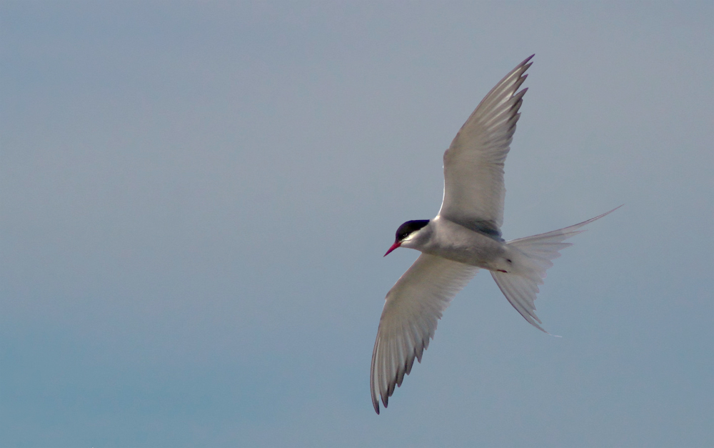 An Arctic Tern (Sterna paradisaea) in flight, near the small island of Fanø, in Denmark.